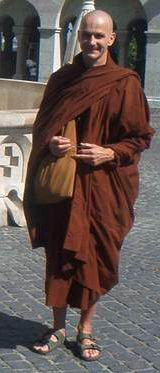 Bhikkhu Vivekananda is a buddhist monk from Germany. He is a Vipassana-Teacher.